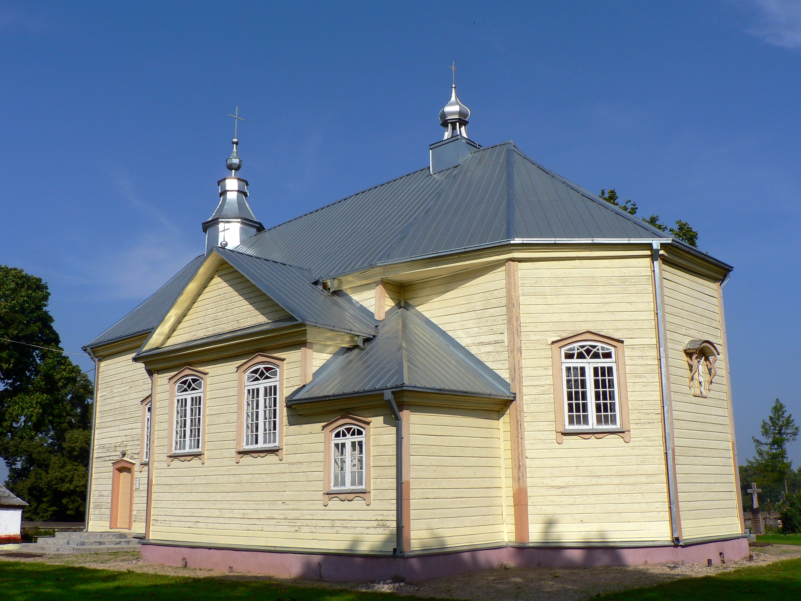 Upita Church, Upita, Lithuania